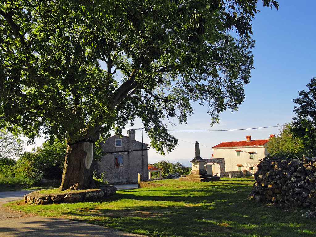 Skitača village center. Photo: Jasmina Pogačnik.